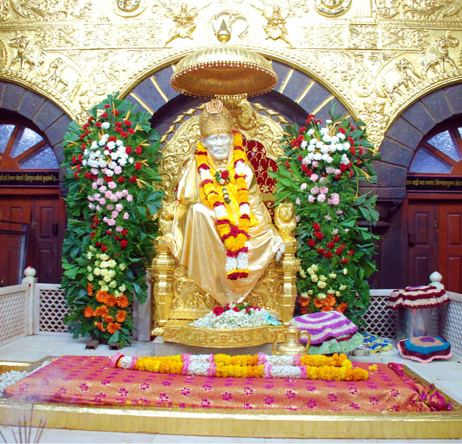 Sai Baba